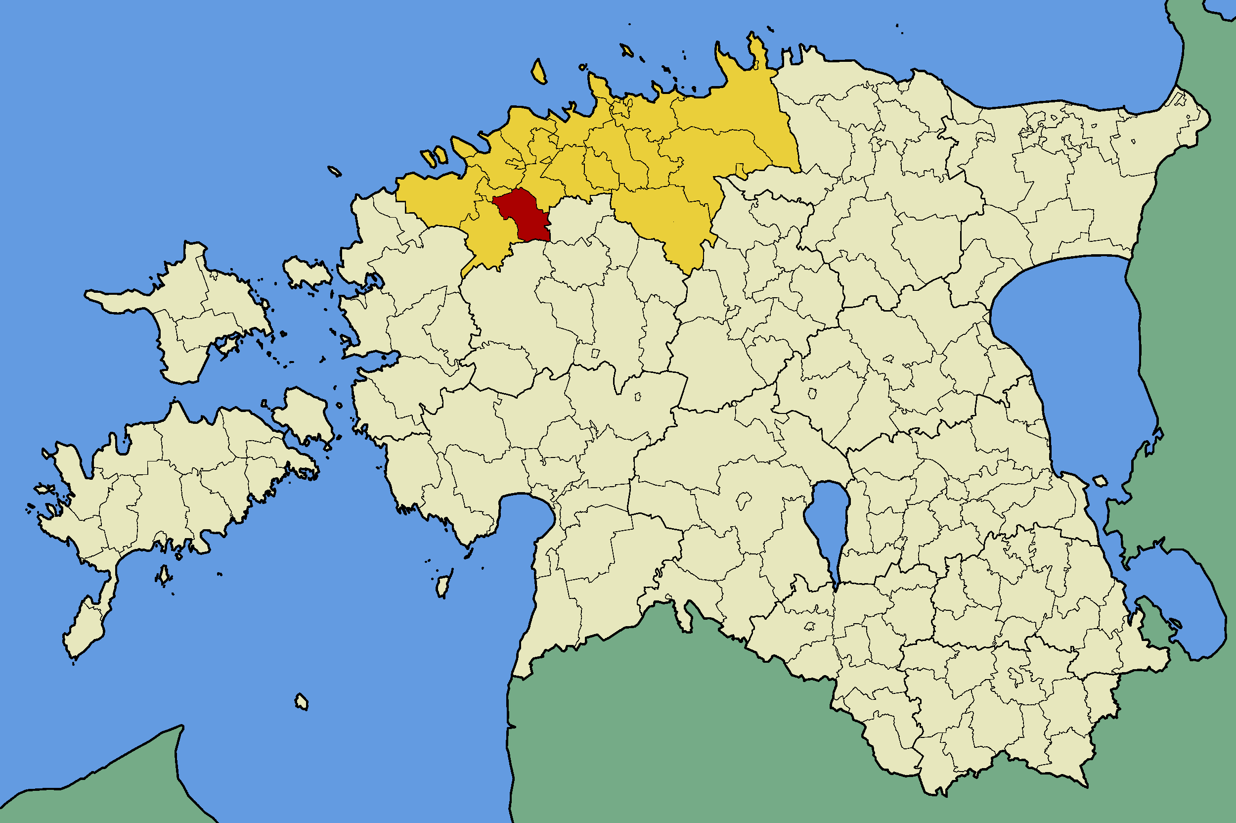 Map of Estonia with borders of municipalities (parishes). Harju county and Kernu municipality (parish) emphasized.